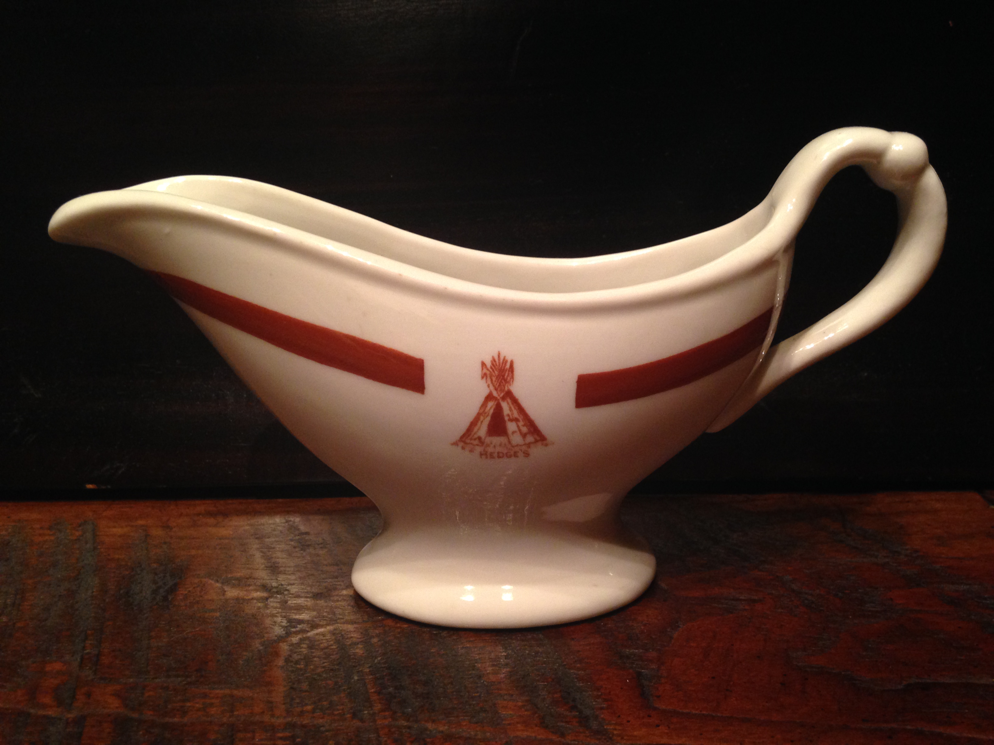 Hedge's Wigwam Tableware - Gravy